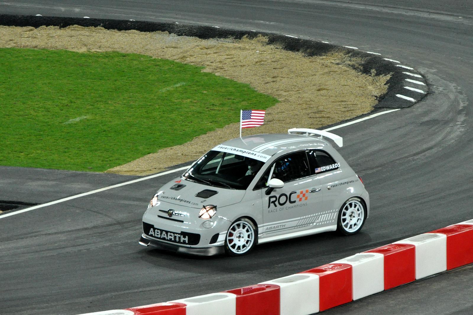 Carl Edwards driving Abarth 500 at 2008 Race of Champions, Wembley Stadium